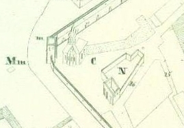 Speyer, the Allerheiligenstift (C) and the Ruins of Saint Peter on the citymap of 1730